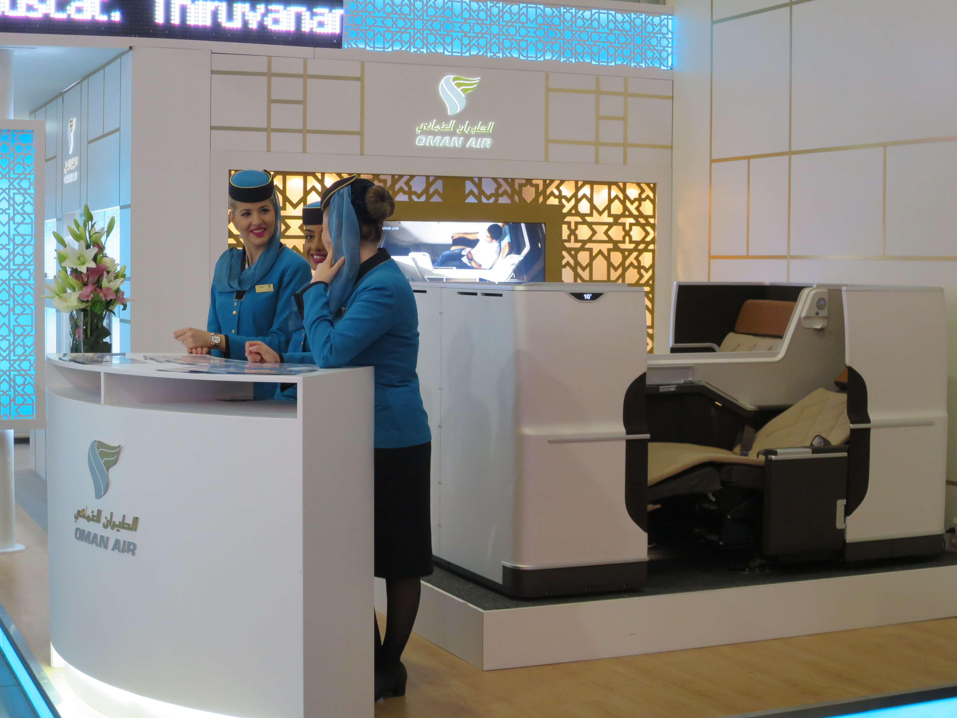 Oman Air ITB 2017.